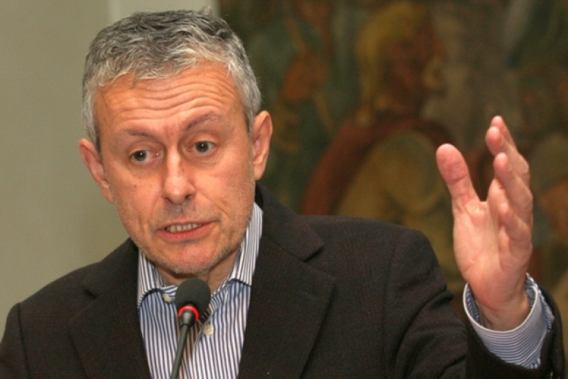 Archive of the Atlantic Club of Bulgaria